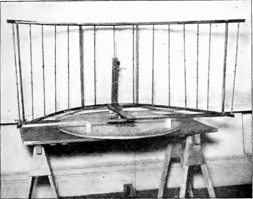 An experimental parabolic antenna used by radio pioneer Guglielmo Marconi in investigations of directional radio transmission 1917-1922, It consists of a dipole antenna at the focus of a parabolic reflector made of metal rods 1.5 wavelengths long. The reflector directs the radio waves from the dipole into a beam. The source said the wavelengths used in these experiments were 2 and 3 meters (150 and 100 MHz), although at these wavelengths the antenna should be somewhat bigger. With a special spark gap transmitter C. S. Franklin, Marconi's chief scientist, transmitted a distance of 20 miles.